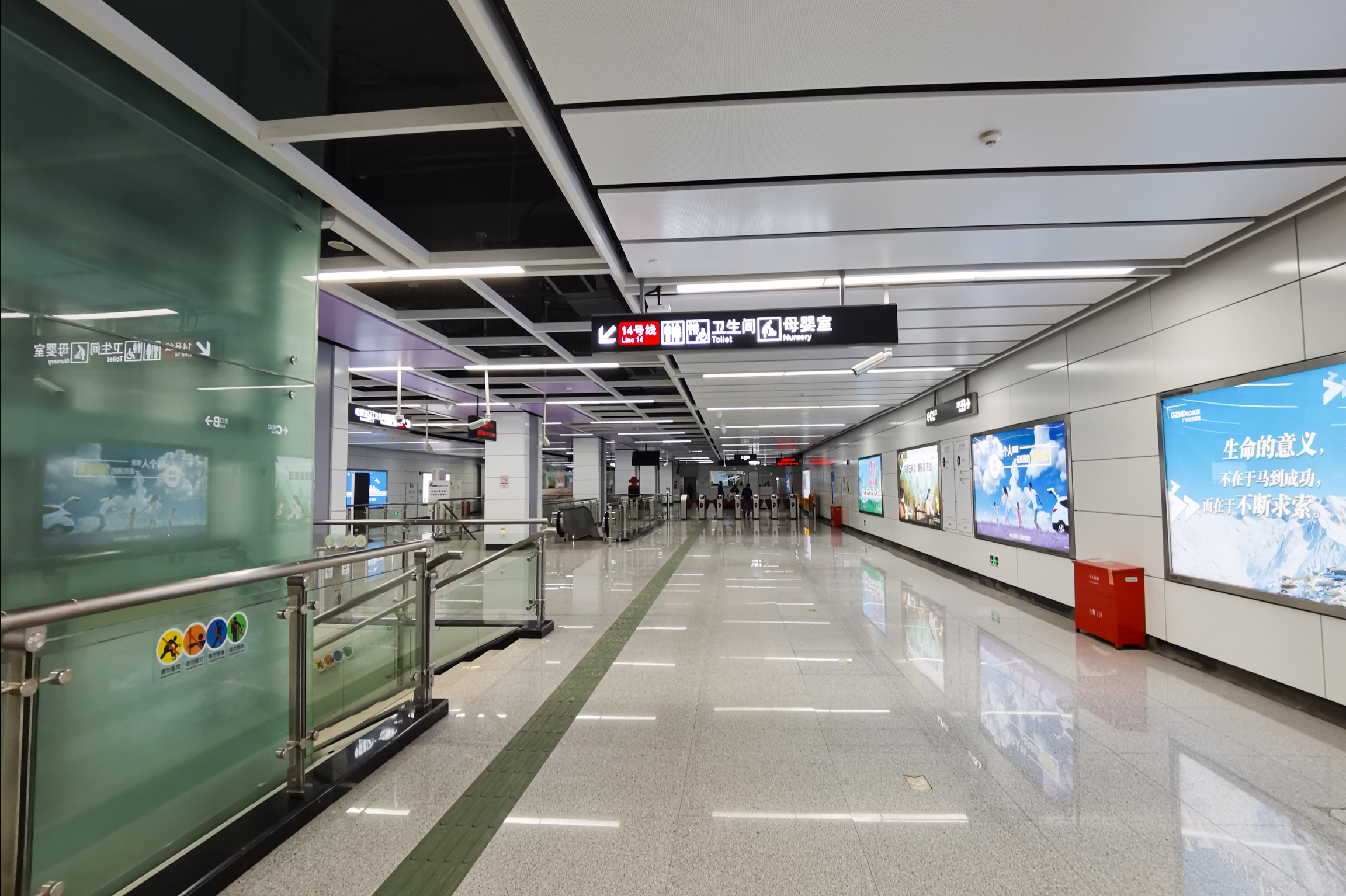 广州地铁新南站